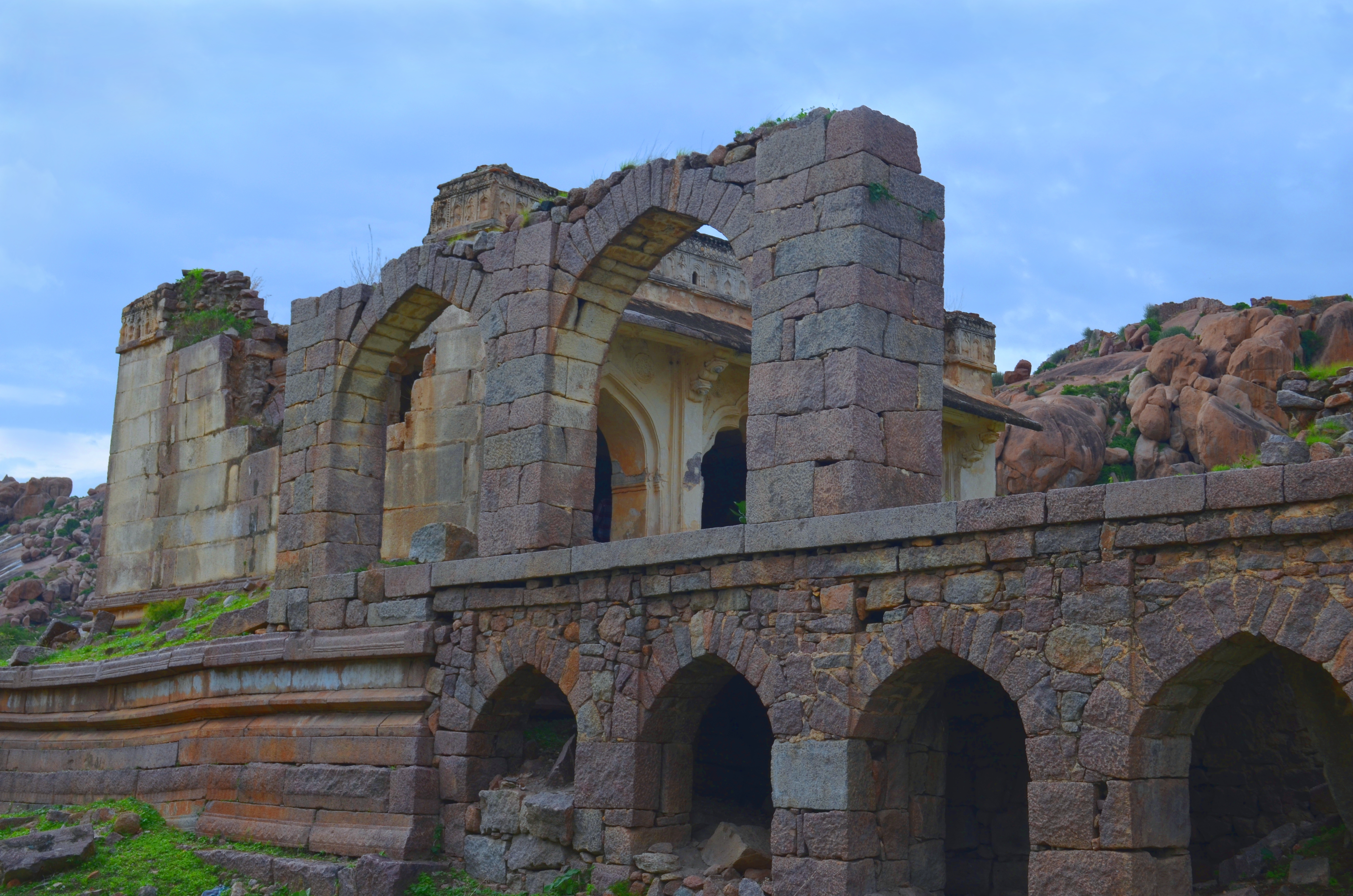 Ruined fort and buildings therein except Ramazan masjid